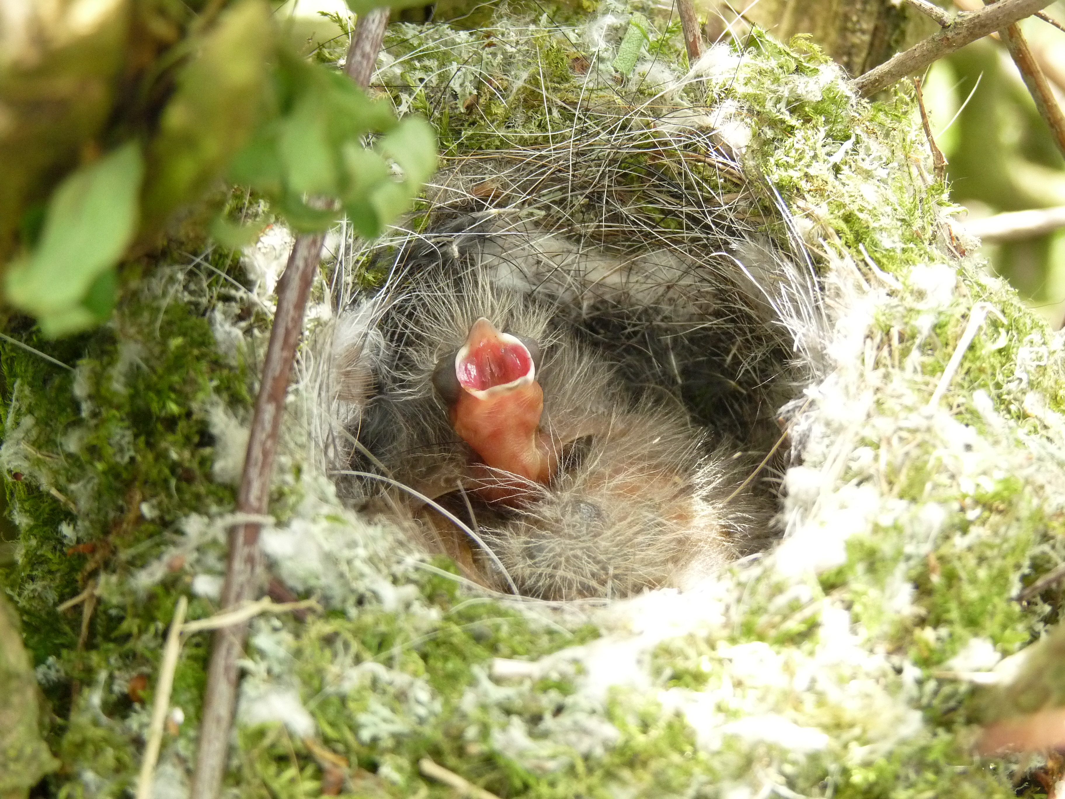 Latin name Fringilla coelebs Family Finches (Fringillidae) Overview The chaffinch is the UK's second commonest breeding bird, and is arguably the... Where to see them Around the UK in woodlands, hedgerows, fields, parks and gardens anywhere. When to see them All year round. What they eat Insects and seeds.